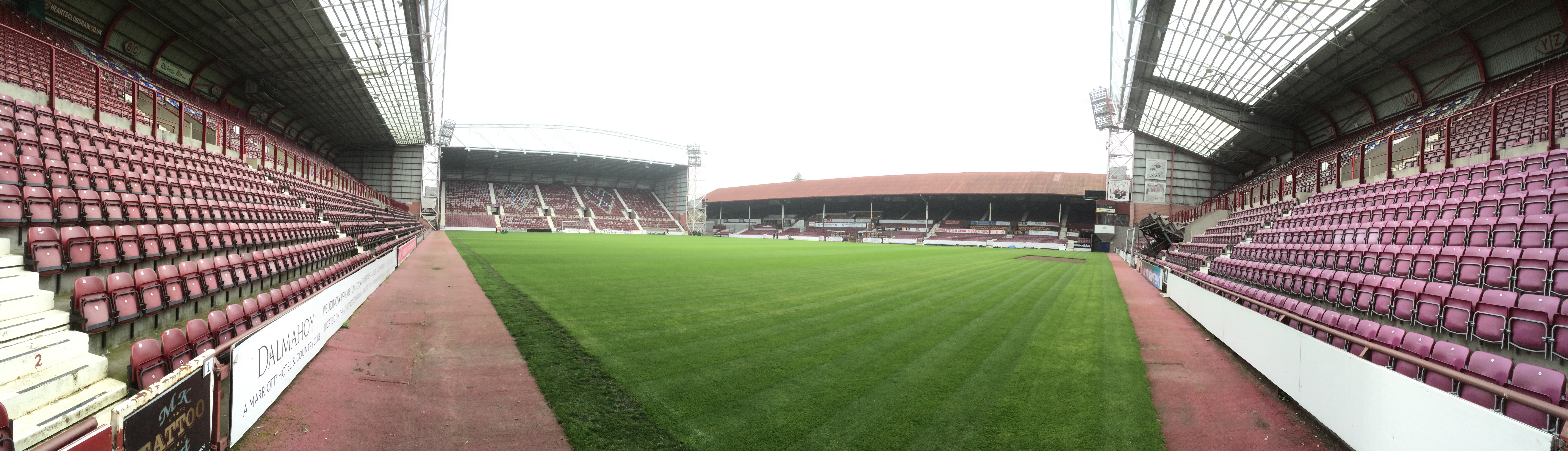 Panorama of Tynecastle Stadium